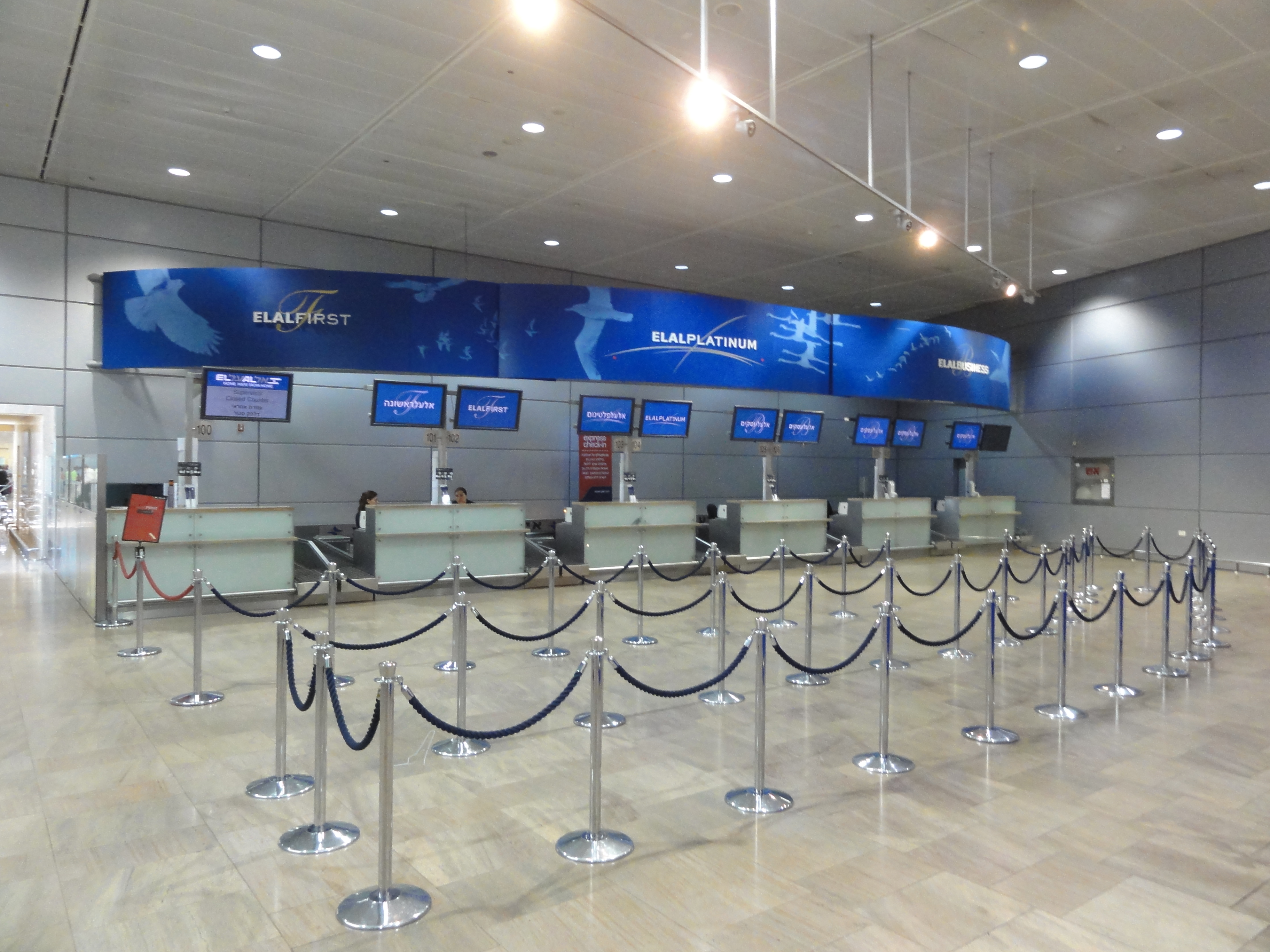 El Al counters at TLV, Israel. Info GPS data may be inaccurate. EXIF data regarding date and time may be inaccurate.